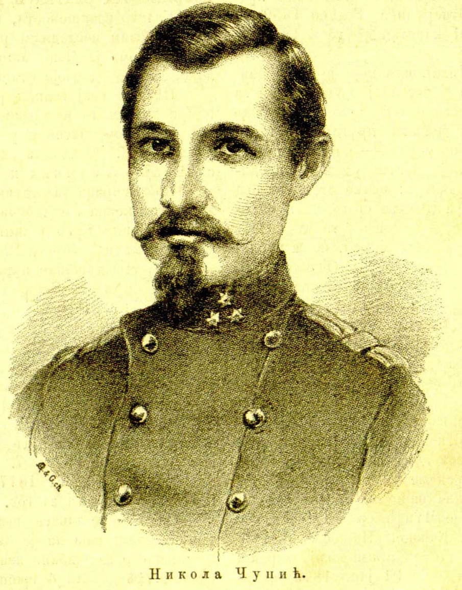 Nikola Čupić, Serbian officer